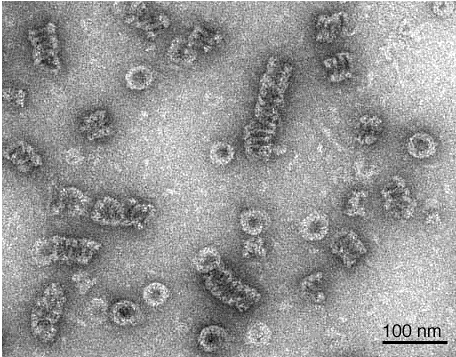 Hinshaw, J. “Dynamin overview: The Role of Dynamin in Membrane Fission”. National institute of diabetes & digestive & kidney diseases, Laboratory of cell biochemistry and biology.